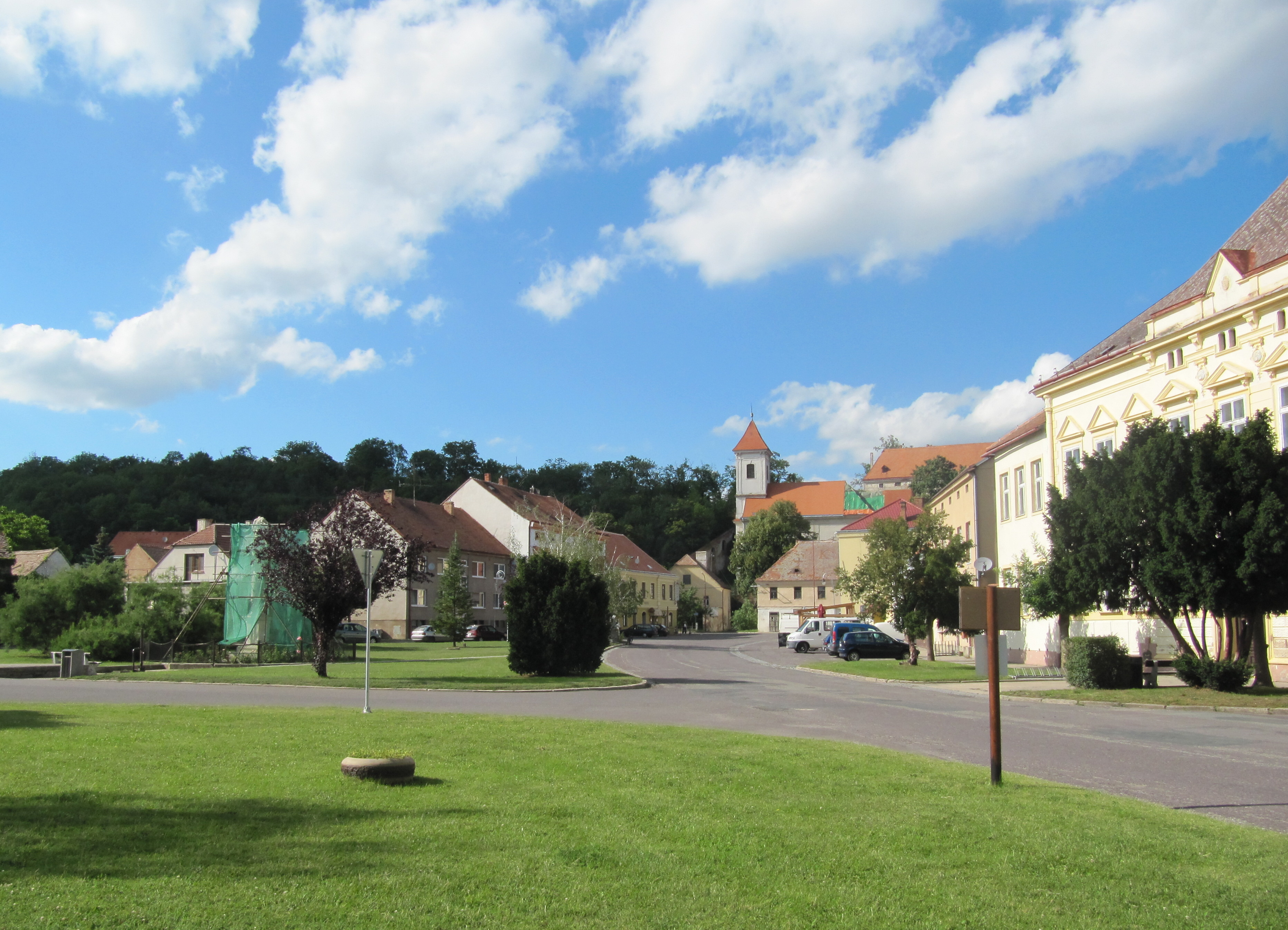 Jaroslavice in Znojmo District, Czech Republic. Square.